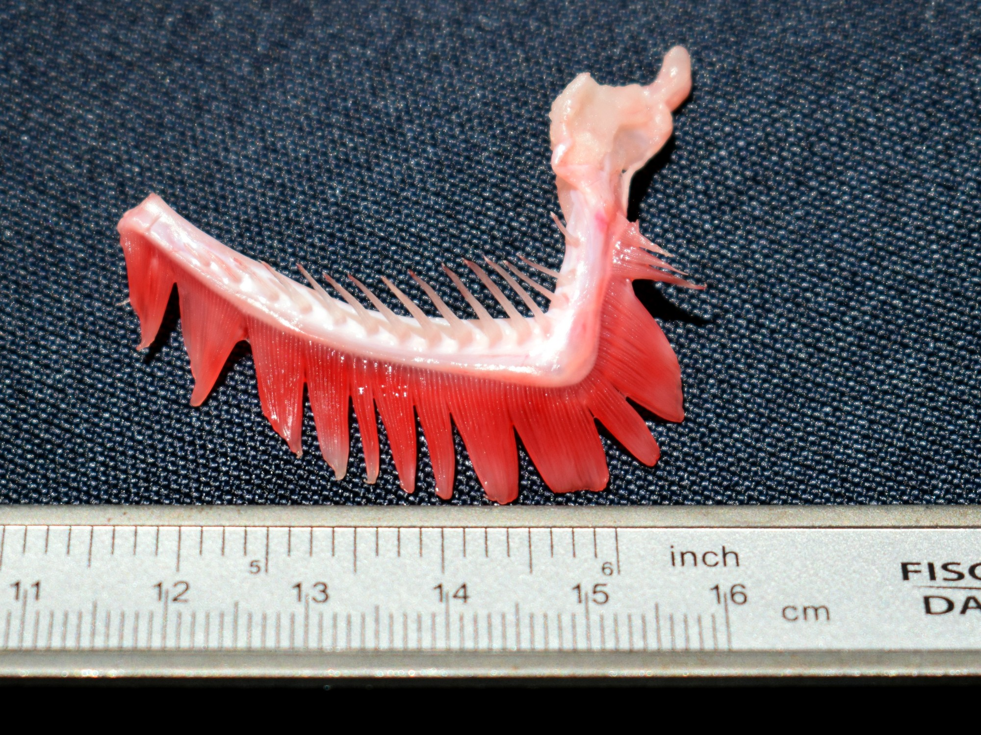 Hemibagrus nemurus, female, 294mm SL; from Cihideung, a tributary of Cisadane River, Bogor, West Java, Indonesia. First left gill arch, with 11+4 gill rakers.